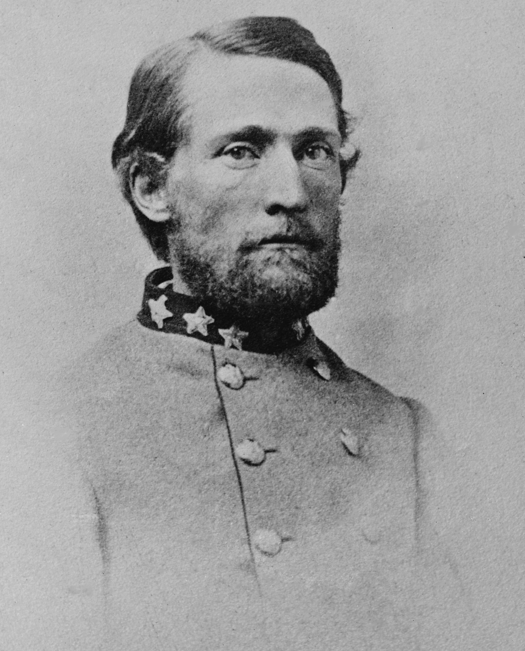 Col. John S. Mosby, C.S.A. Image is cropped from High resolution Tiff file and significant restoration was performed to remove scratches and speckling.